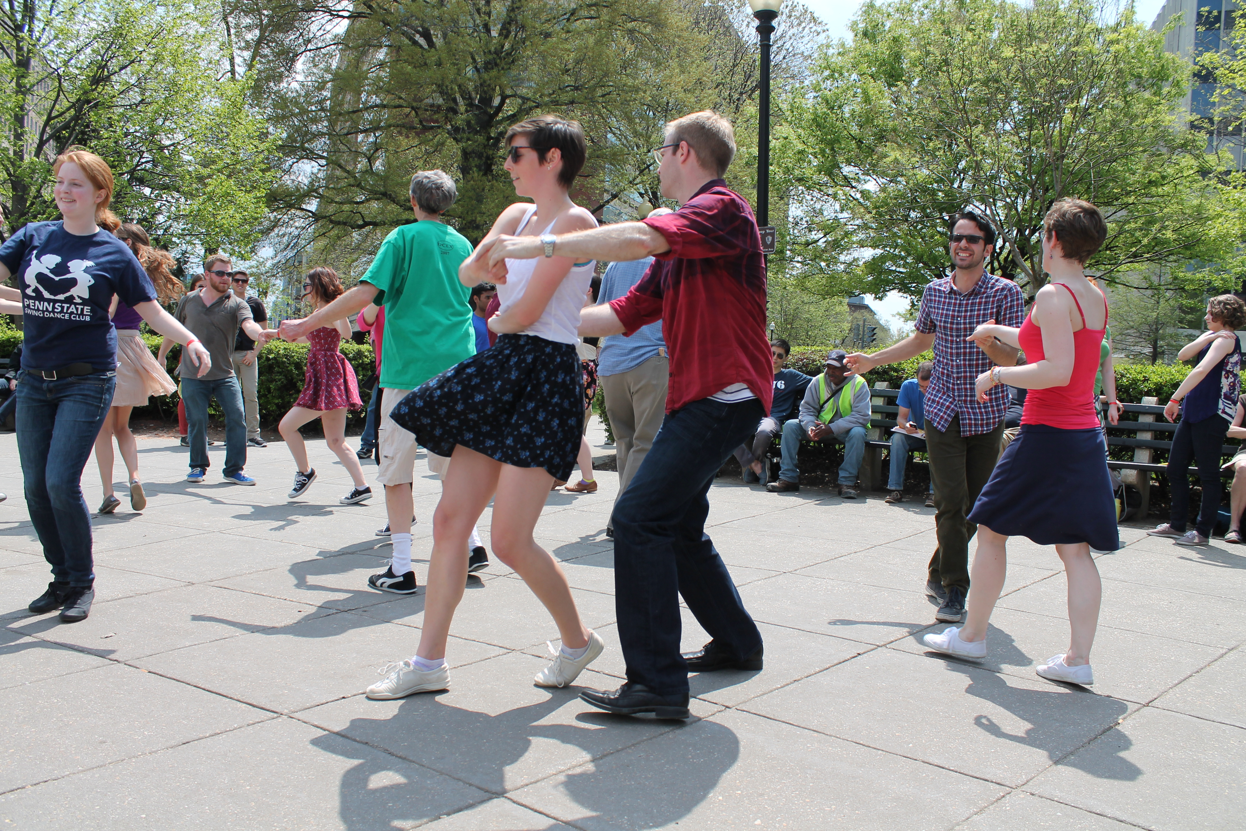 DCLX 13th LINDY HOPPING FESTIVAL SWING OUT at DuPont Circle, NW, Washington DC on Saturday afternoon, 26 April 2014 by Elvert Barnes Photography